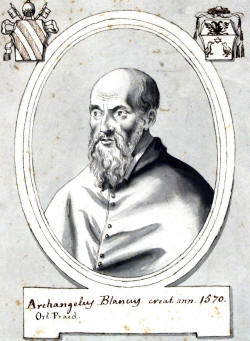 Archangelo de' Bianchi